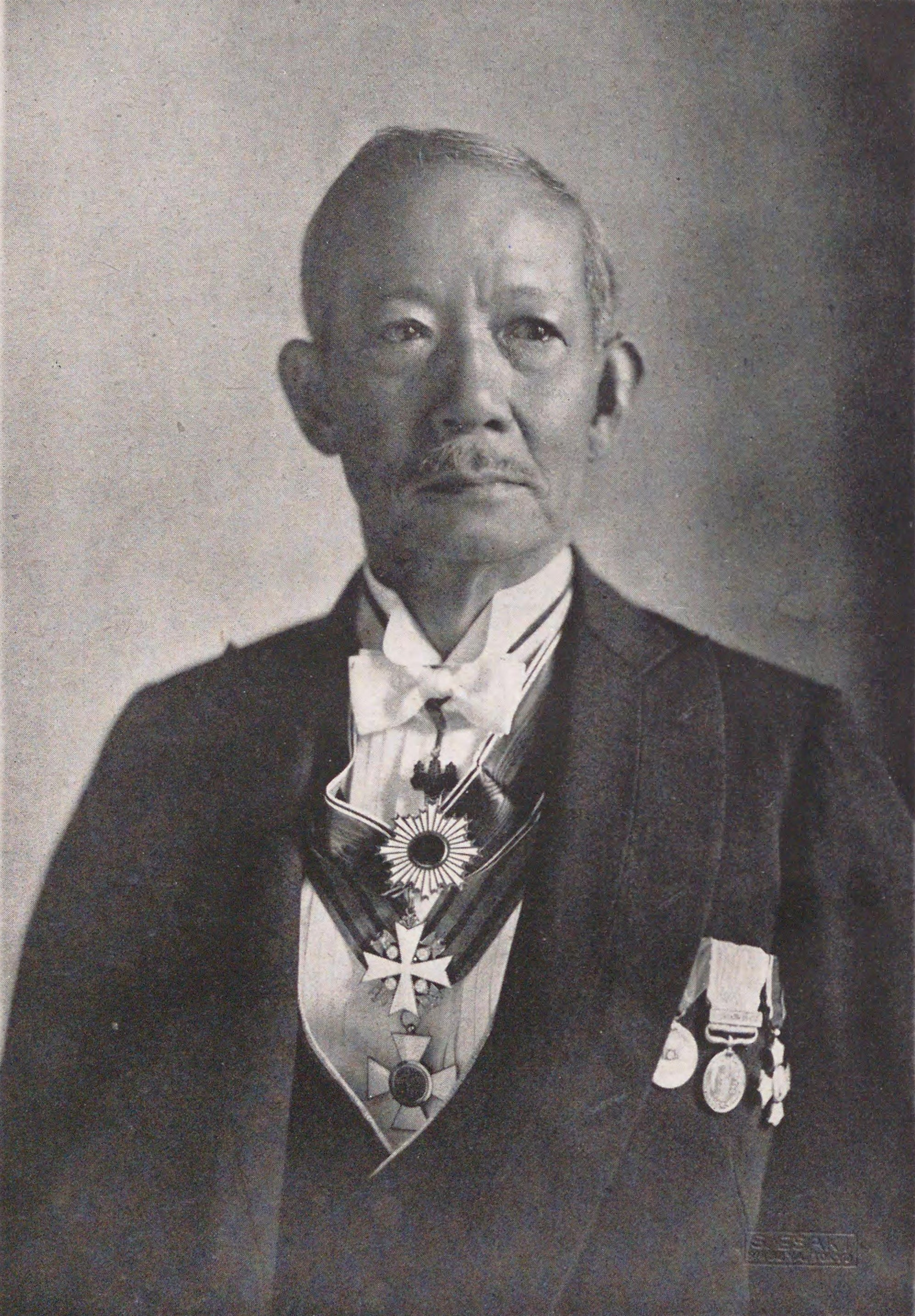 Imaizumi Kaichirō, a Japanese engineer and businessman.